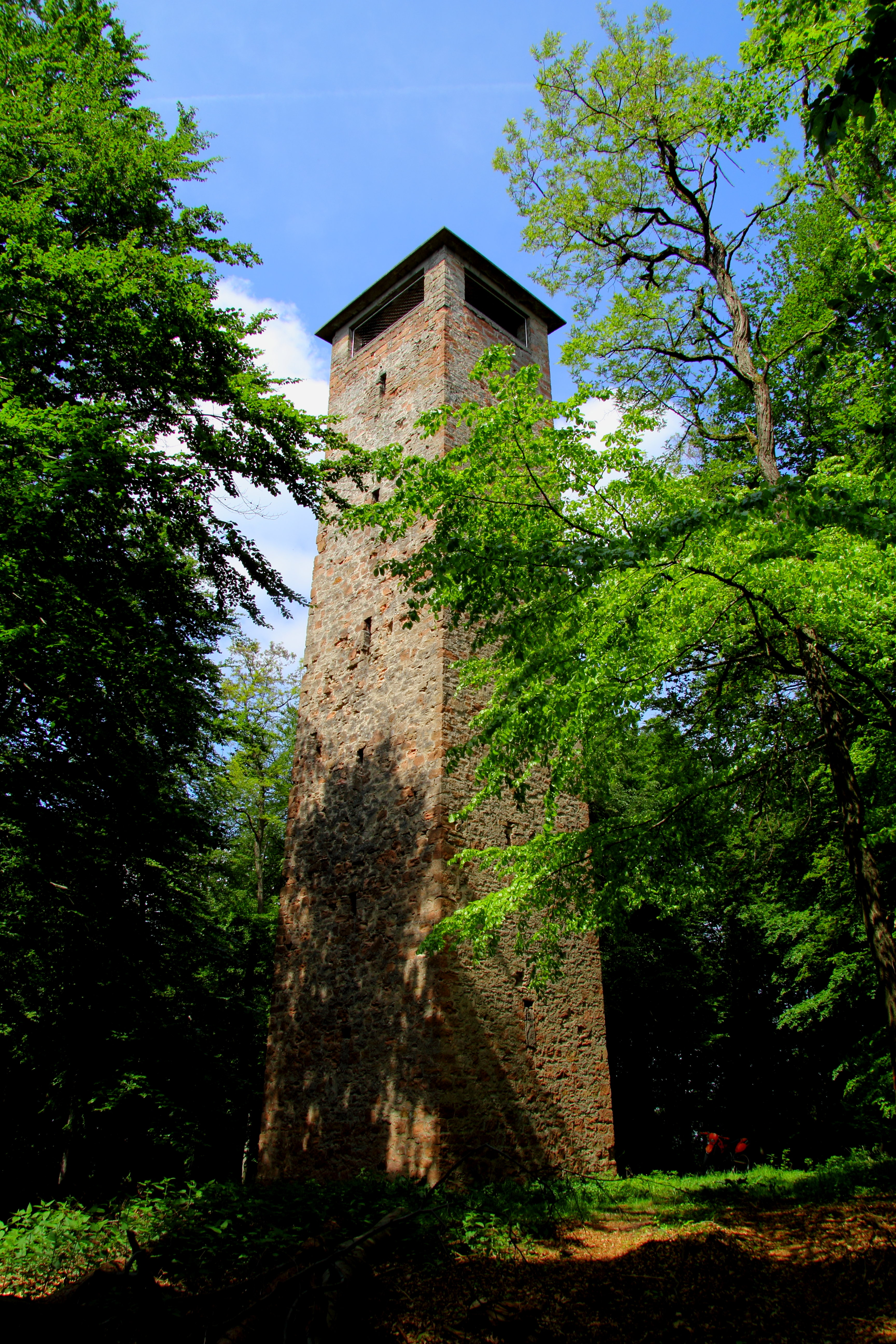 Aschaffenburg-Schweinheim, Hönleinturm watch tower on the summit of the Stengerts hill in the Spessart mountains